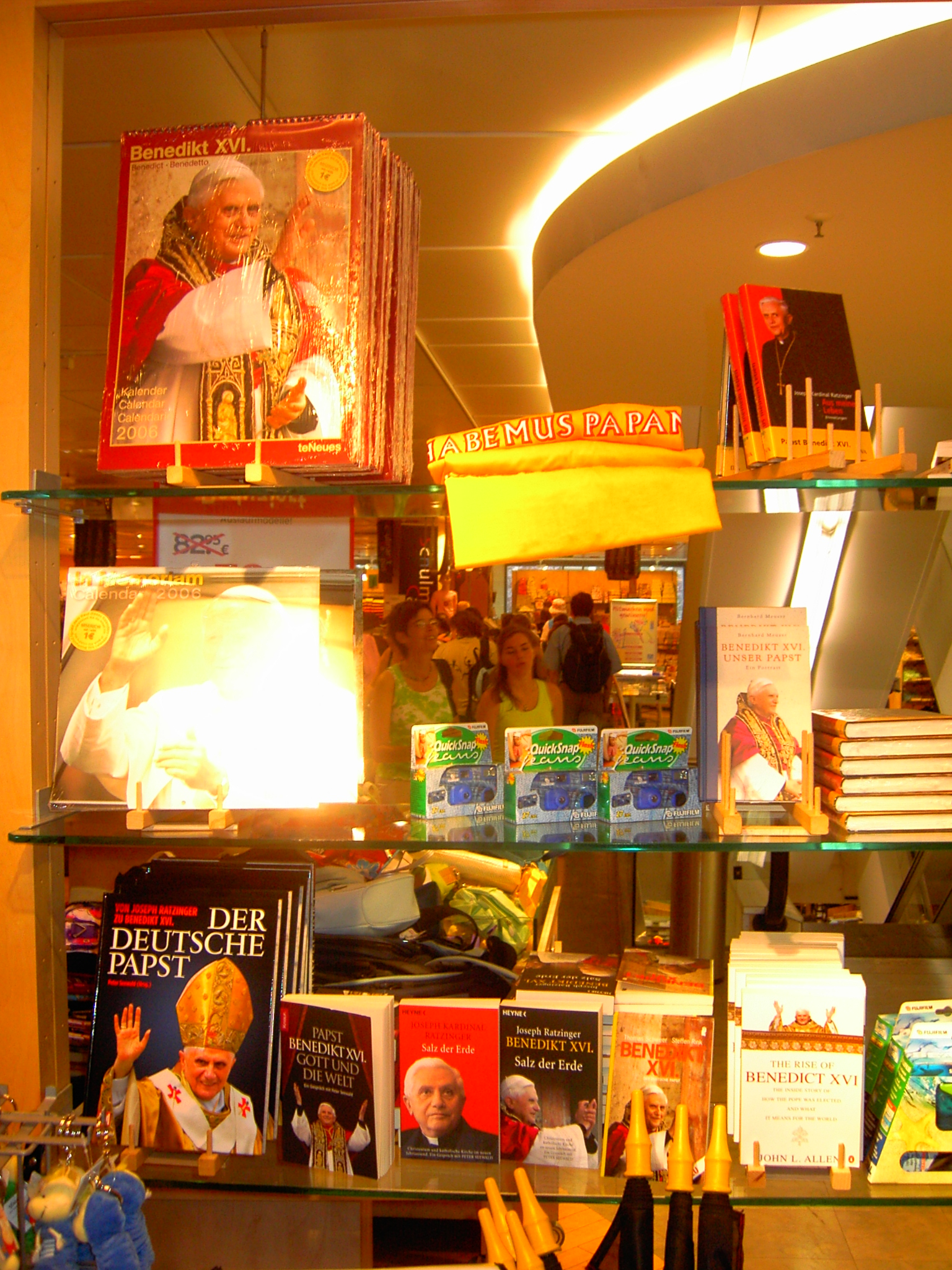 Merchandising of Pope Benedict XVI. Photo taken at a department store, Bonn.